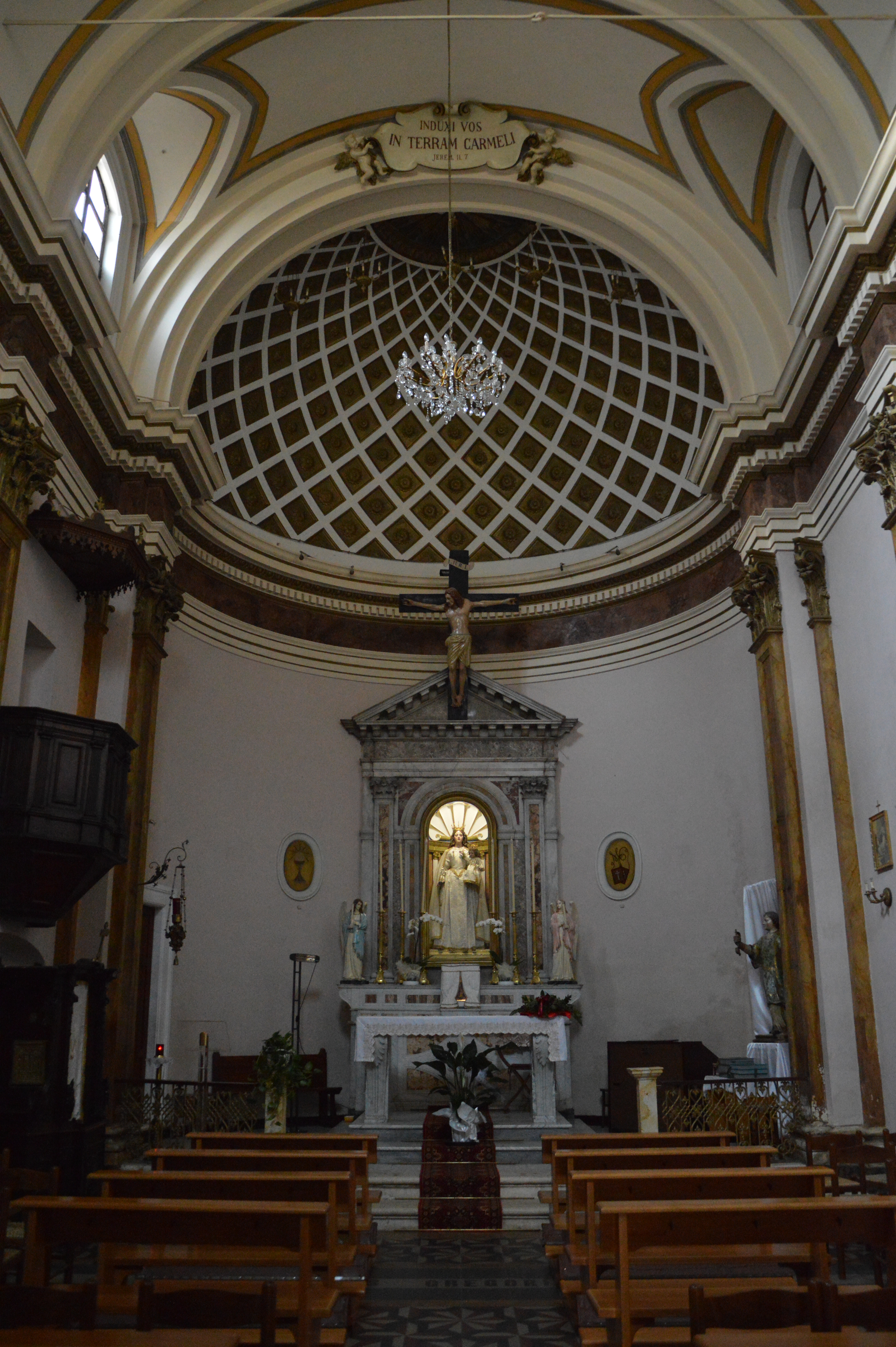 Interno